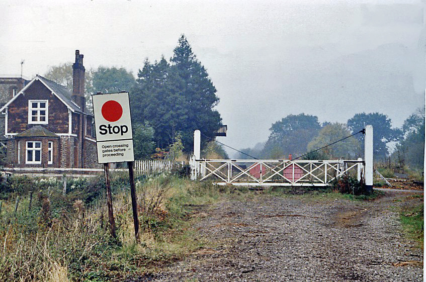 Remnants of County School station, 1986. View northward, towards Wells-on-the-Sea and Wroxham: ex-GER Wymondham - Dereham - Wells line, junction of branch from Wroxham via Aylsham. The station had been closed 5/10/64 along with the line to Wells, the Wroxham line having closed from 15/9/52. It was reopened in 1987 by the Fakenham & Dereham Railway Society and the line restored from Dereham subsequently by the heritage Mid-Norfolk Railway. (See various images by Ashley Price and Stephen McKay).